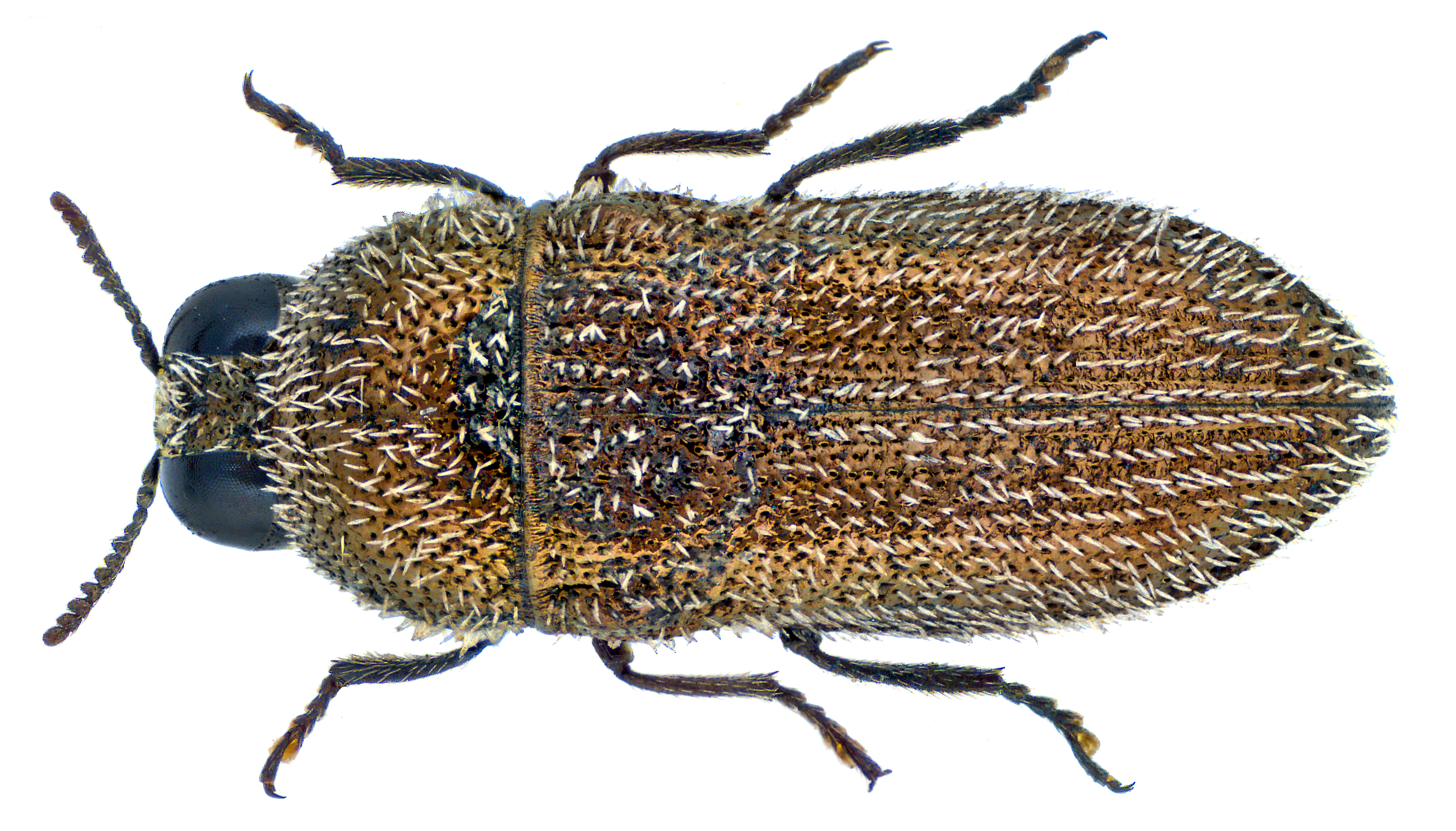 Family: Buprestidae Size: 6,2 mm Location: Cyprus, Larnaca Distr., Alaminos, environment Club Aldiana leg. U.Schmidt, 4.-14.V.2014; det. M.Niehuis, 2014 Photo: U.Schmidt, 2014